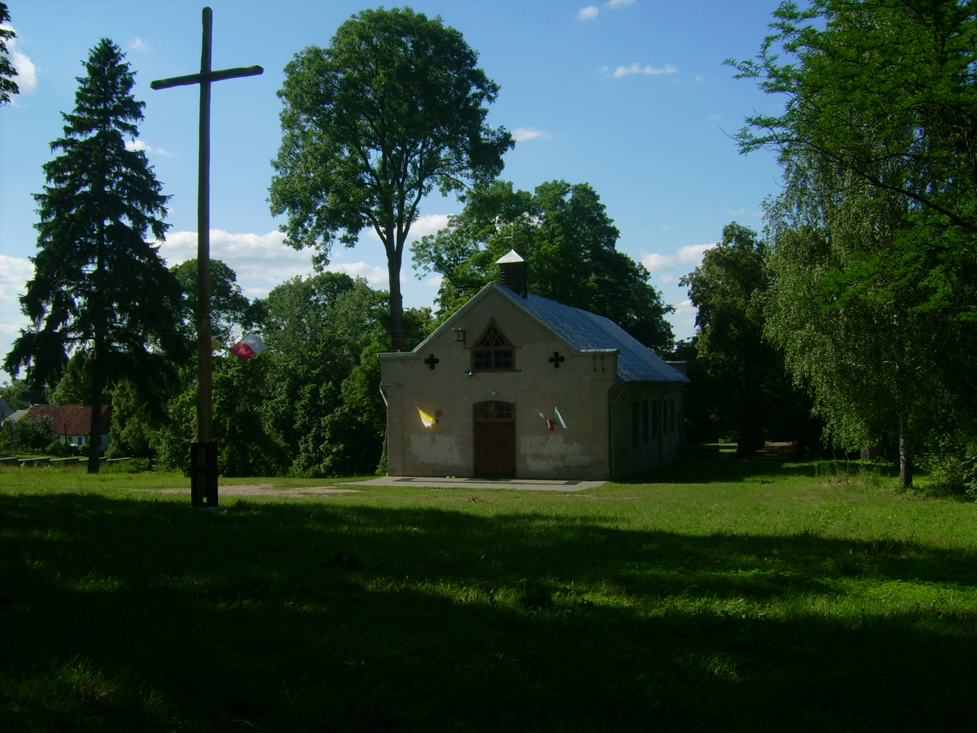 Chapel, earlier a orangery, in Korczew